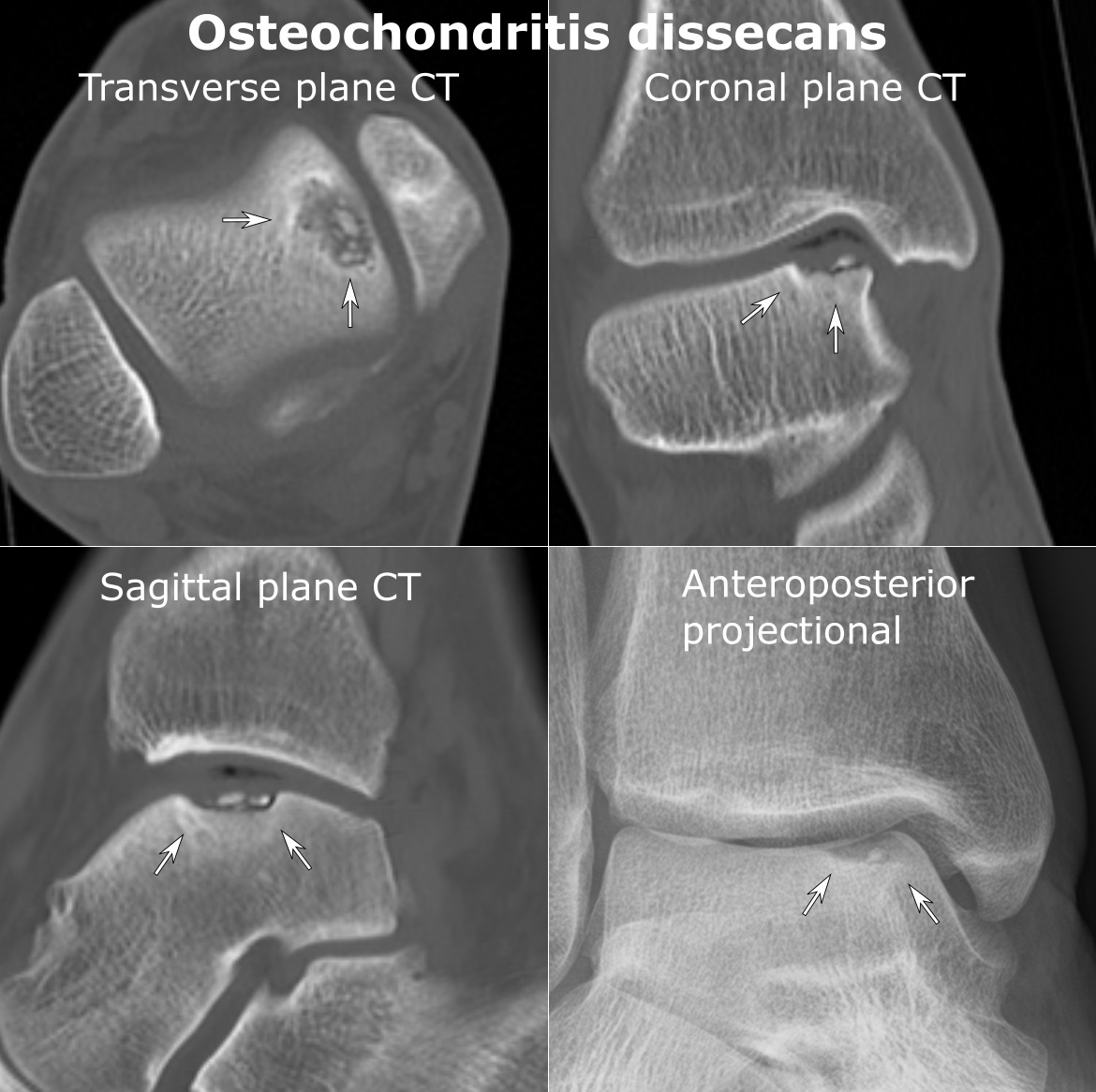 Radiographic images of the ankle of a 42 year old soccer player with weight-bearing pain for 9 months, showing osteochondritis dissecans of parts of the superio-medial talus. There is necrosis of subchondral bone, formation of loose fragments, as well as gas formation in the joint space. The projections are: Transverse plane by CT scanCoronal plane CT Sagittal plane CTAnteroposterior Projectional radiography